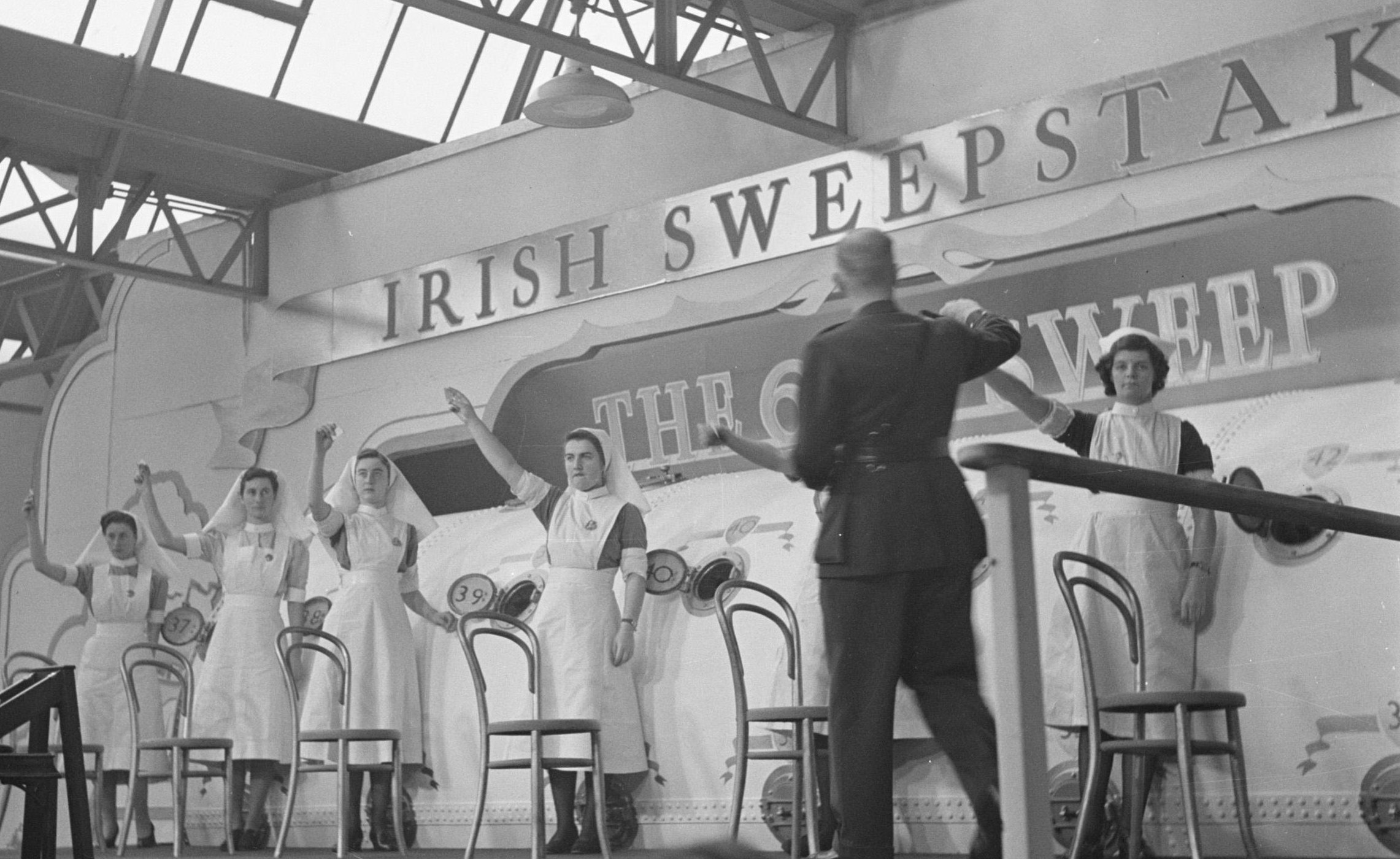 Nurses show the public the lottery tickets of the Irish Hospitals Sweepstake they took from the drum